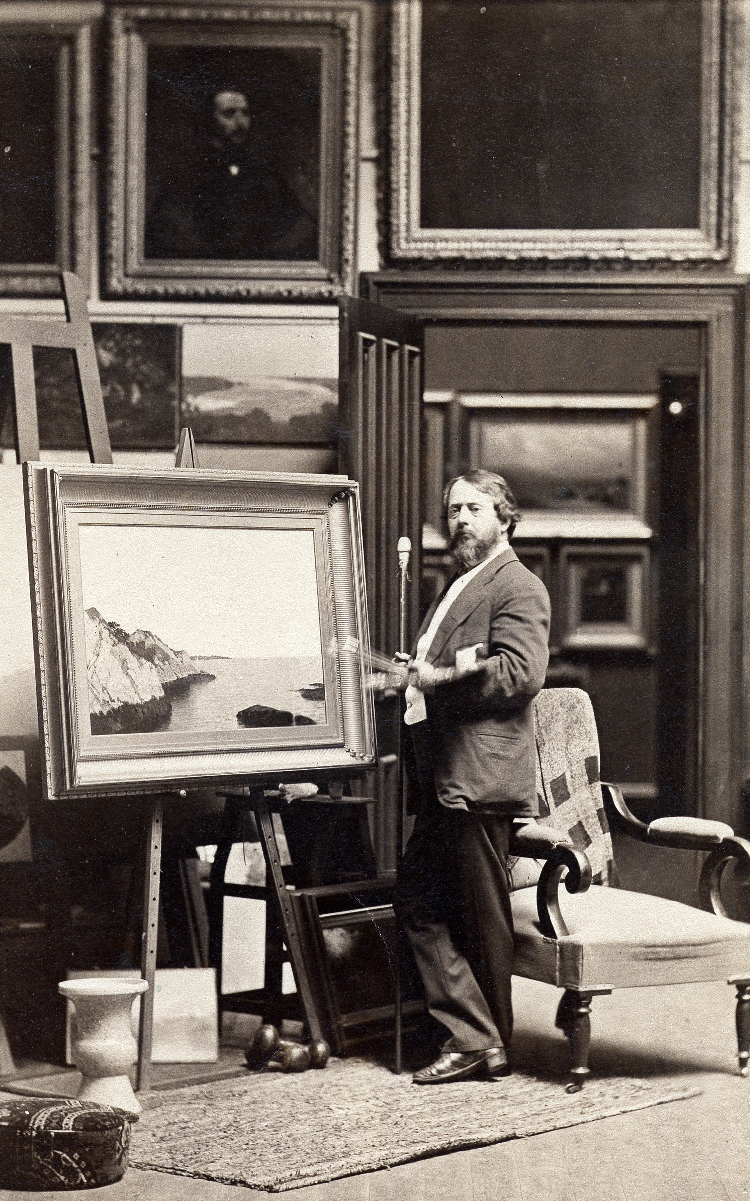 A cartes-de-visite signed: "J.F. Kensett, Feb., 29, 1864", photographed by A. A. Turner of the D. Appleton & Co. studio; a cartes-de-visite of Kensett standing next to a table, signed on reverse: "John F. Kensett,"photographed by Rintgul & Rockwood", ca. 1864; and Kensett in his studio standing next to an easel, photographer unknown, ca. 1866. Kensett, John Frederick, 1816-1872 -- Photographs